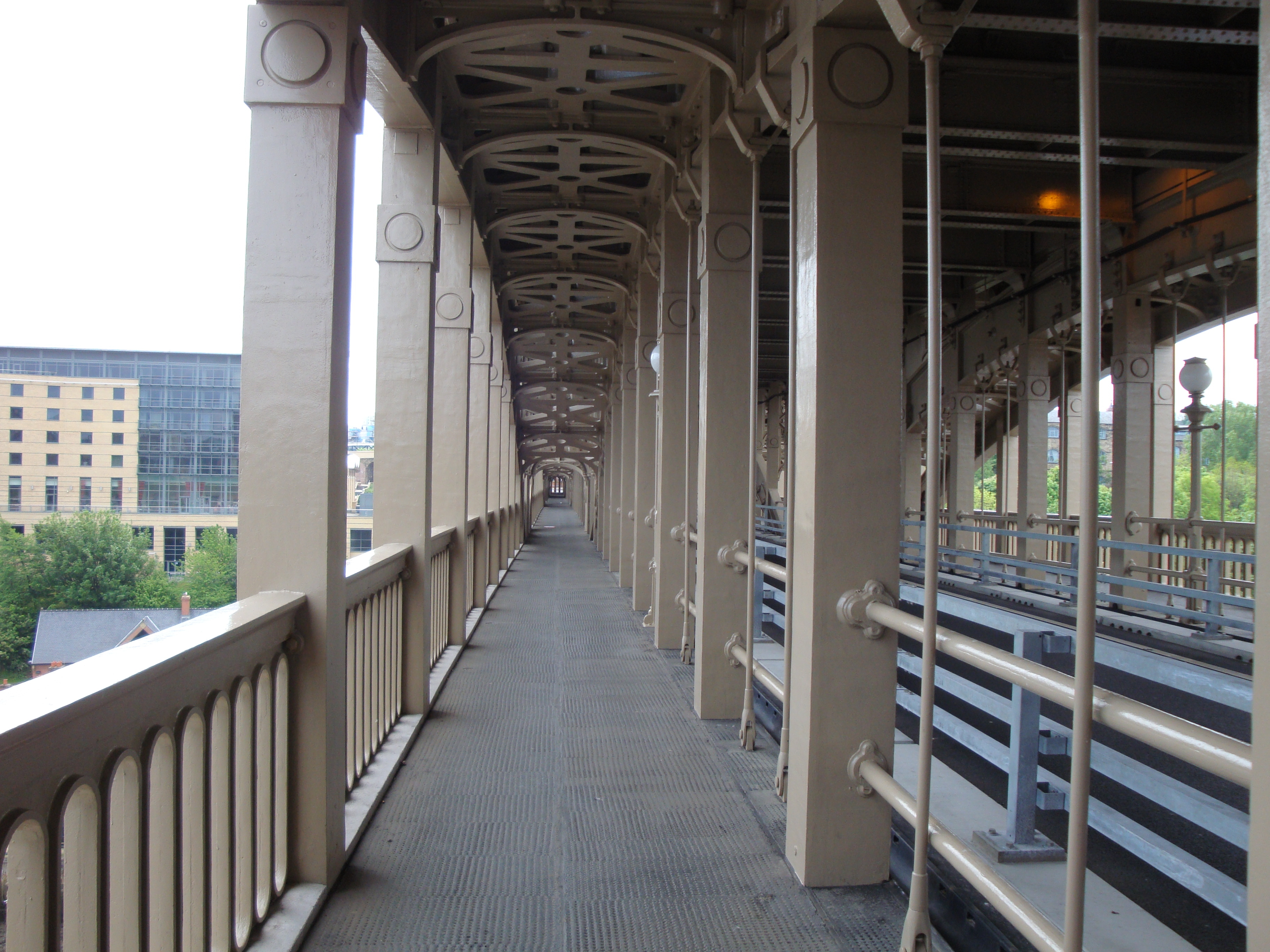 The walkway on the High level Bridge in Newcastle-upon-Tyne, England. This view is facing south, towards Gateshead, and shows the restored and re-opened bridge. The road traffic is now restricted to taxis and buses, and flows only south.